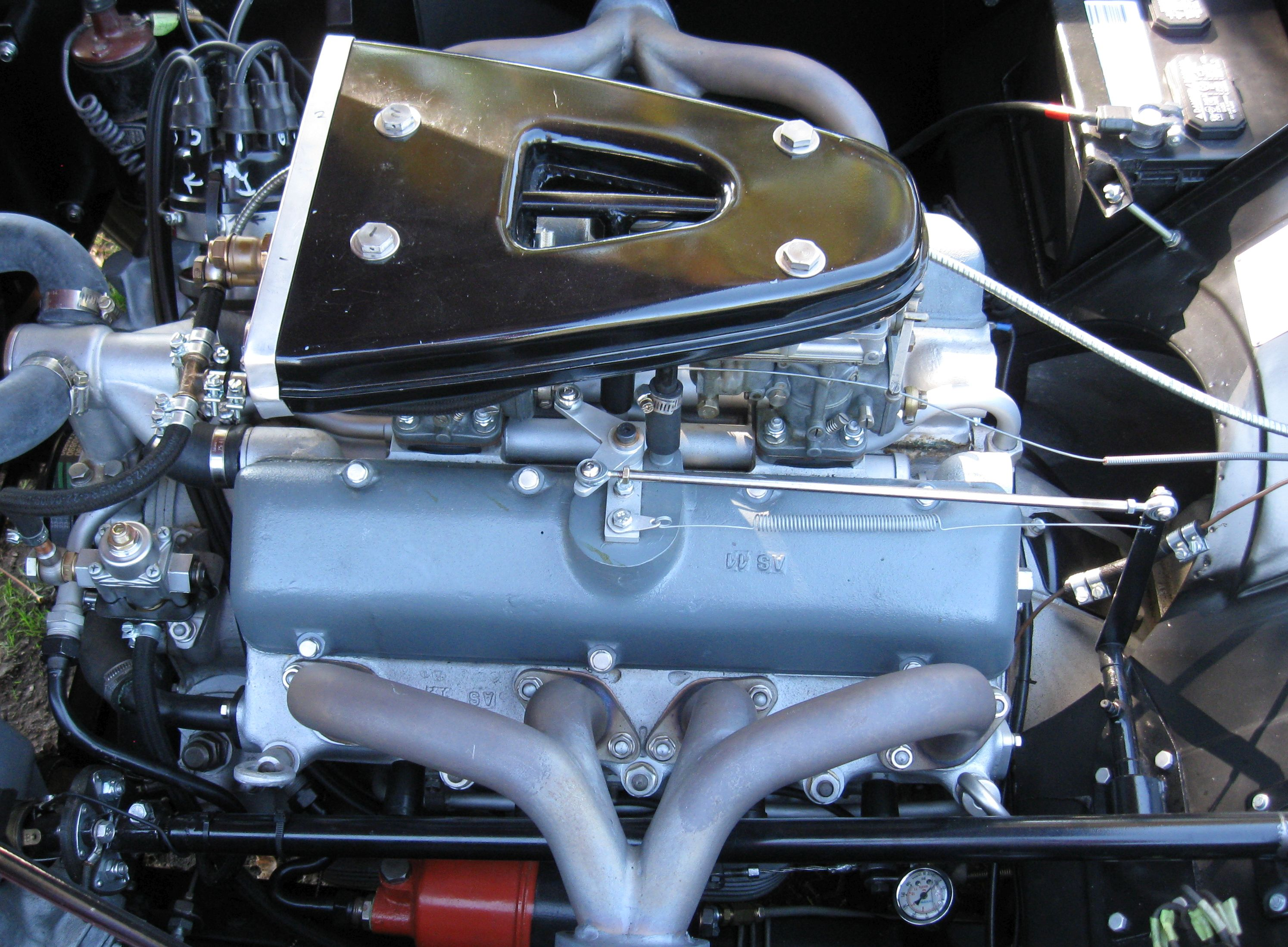 The Fiat "Otto Vu" narrow angle V-8 engine used in the Siata 208 car.